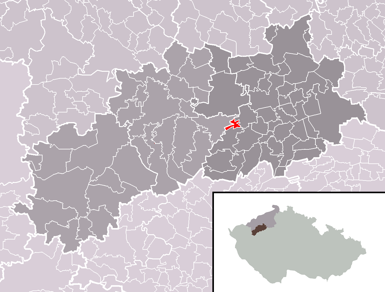 Location of Opočno municipality within Louny District and administrative area of Louny as a Municipality with Extended Competence.